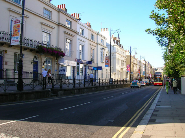 Queens Road. Taken from the junction of Church Street and Queens Road. Queens Road was constructed in 1845 to connect Brighton town centre with the newly opened Brighton station. Parts of the route were already occupied, to the south of this junction was Air Street a small slum area part of which still links Queens Road to Queens Square, whilst to the north was Windsor Terrace constructed in the 1830s. Unlike the slums Windsor Terrace still survives today as does the original walkway originally built next to a graveyard part of which survives to the right of the road today and is now a small park. The new road was built at a higher elevation than the old graveyard but lower than Windsor Terrace. The white building in the middle of the terrace is a Freemasons Lodge constructed in the 1920s. Click on the link to take you to the next page.